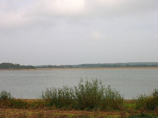 Arlington Reservoir Looking north east from Polhill's Farm. The white to the left of the picture are seabirds. Arlington Church can be made out in the background to the right. The reservoir was made in 1971 cutting out a bend from the Cuckmere river. The spoil from the excavation was used to landscape the edges of the reservoir which is now a country park.